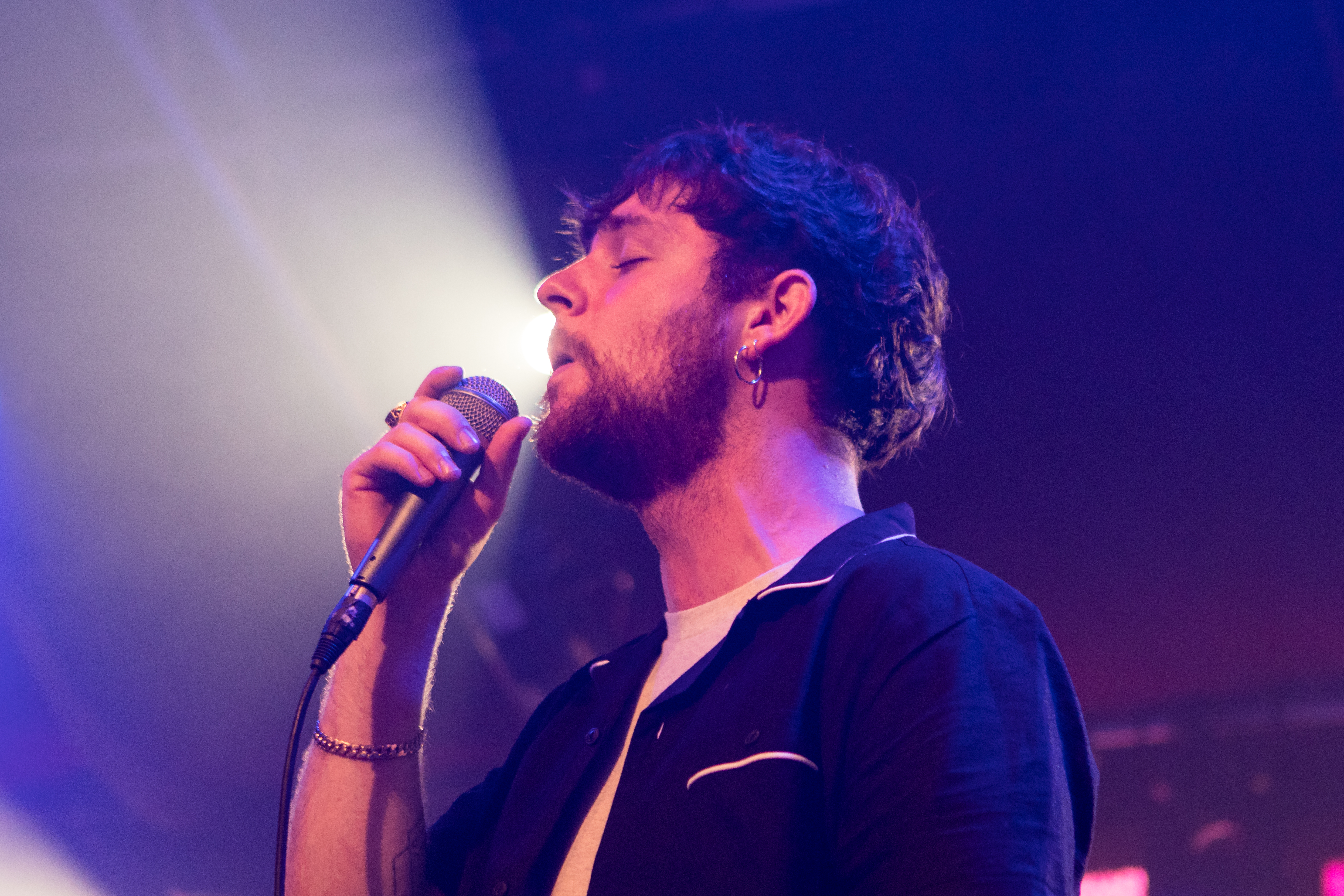 Tom Grennan at Haldern Pop Festival 2017